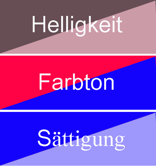 Colors changing in Hue-Saturate-Brightness - HSB-Modell